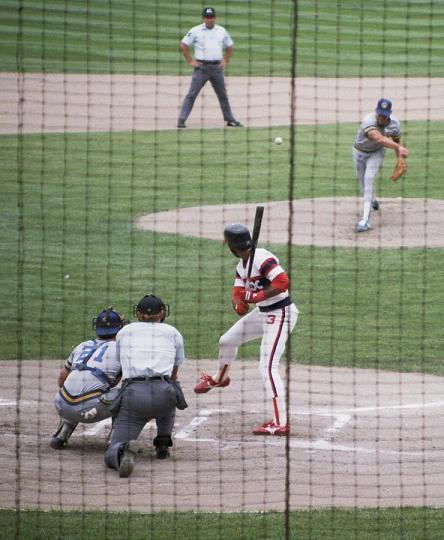 Harold Baines at bat in a 1986 game.